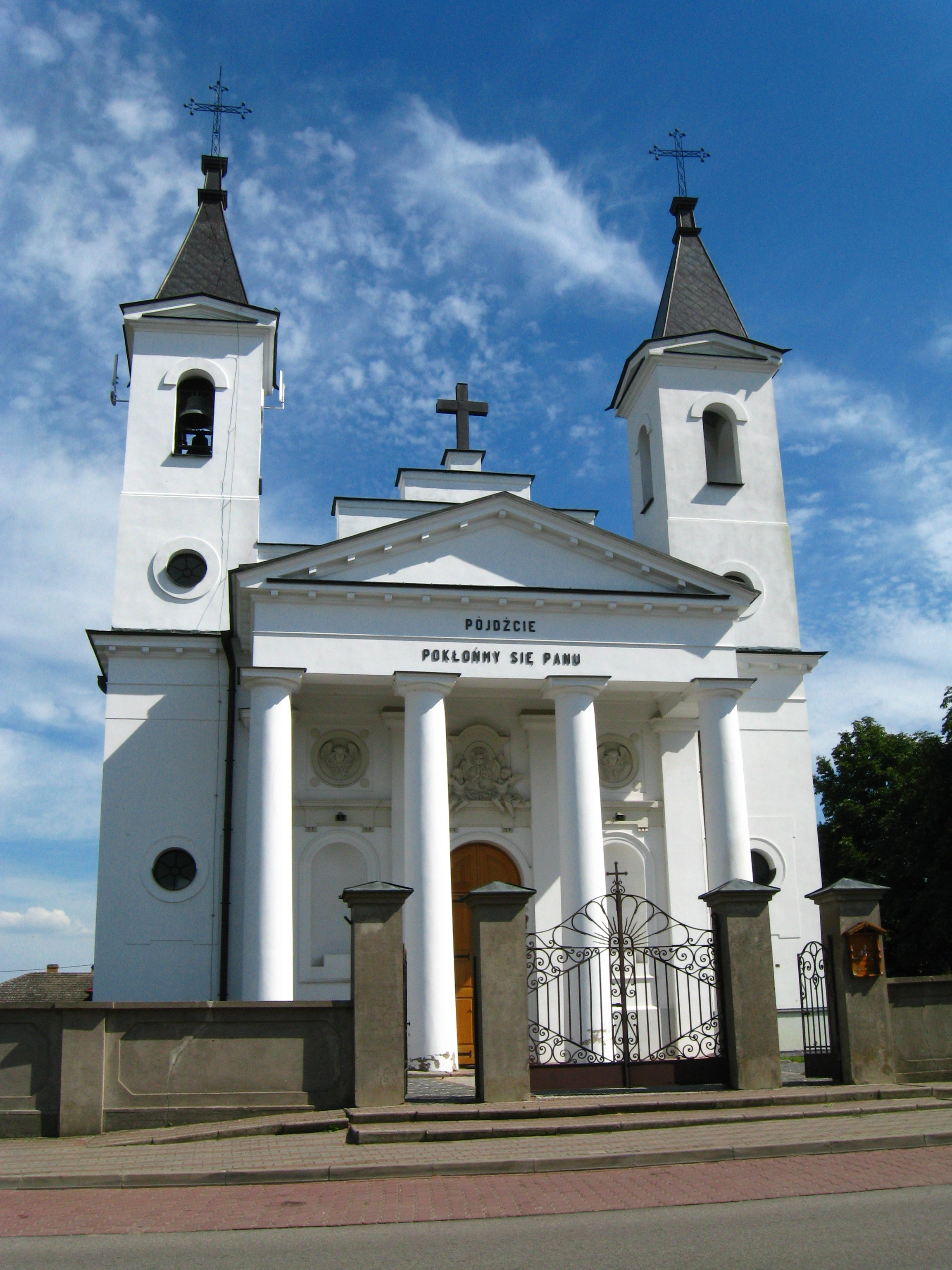 Parish roman–catholic church of saints Peter and Paul — classicist church built in years 1805–1840. Fencing from the beginning of 20th century